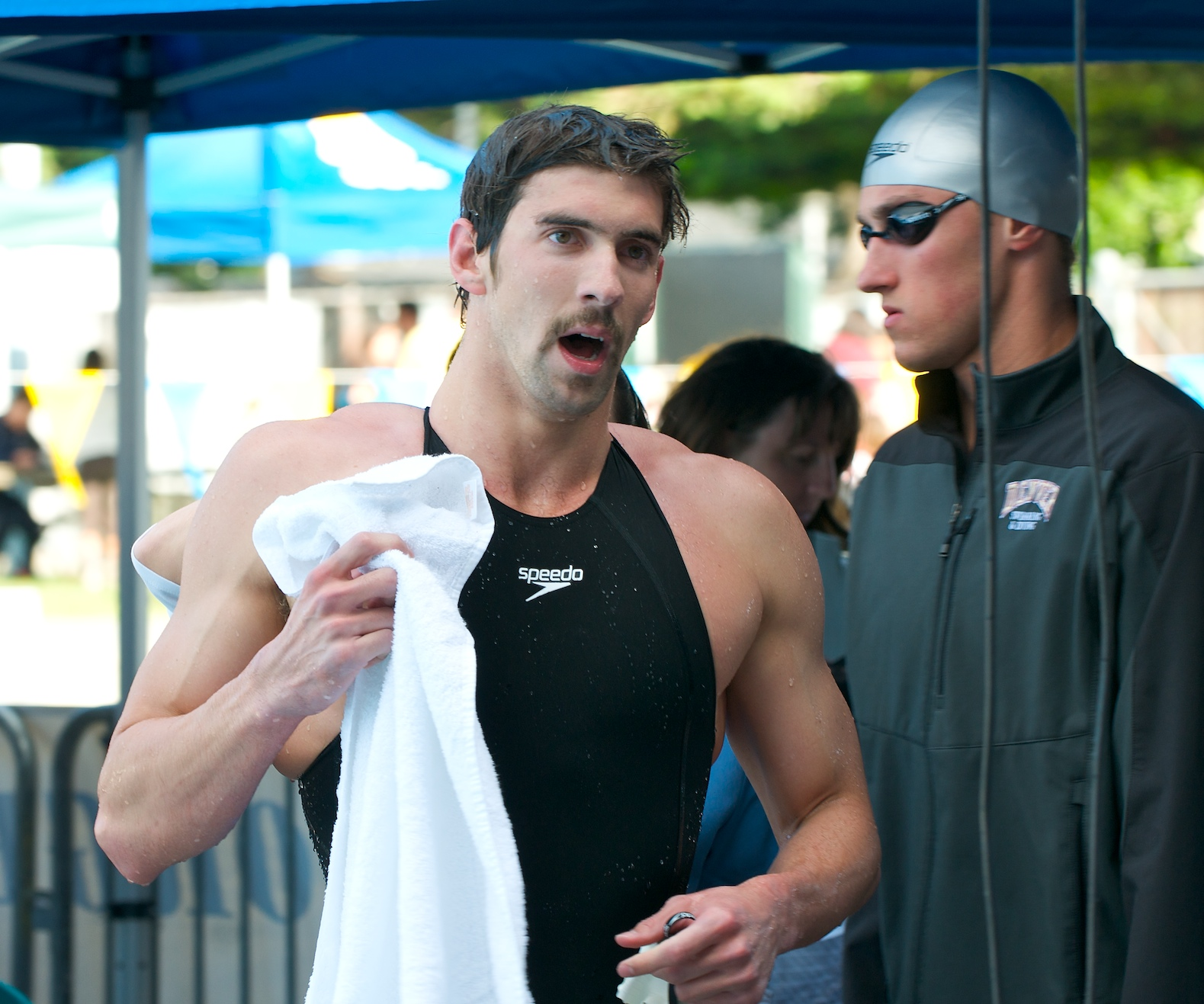 Michael Phelps at Santa Clara, California, 2009.